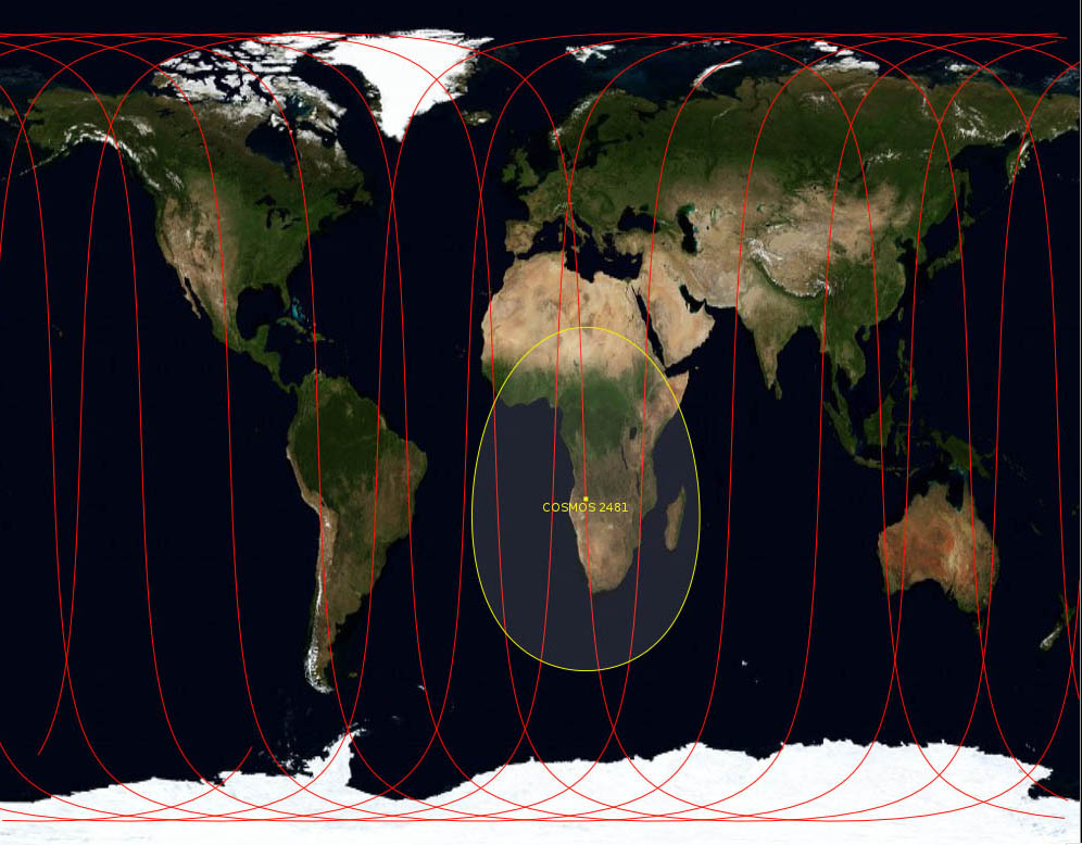 Ground track of satellite Kosmos 2481. Made from US government TLE data by GPLed program gpredict which plots the ground track over an public domain map of the world which originates from NASA.